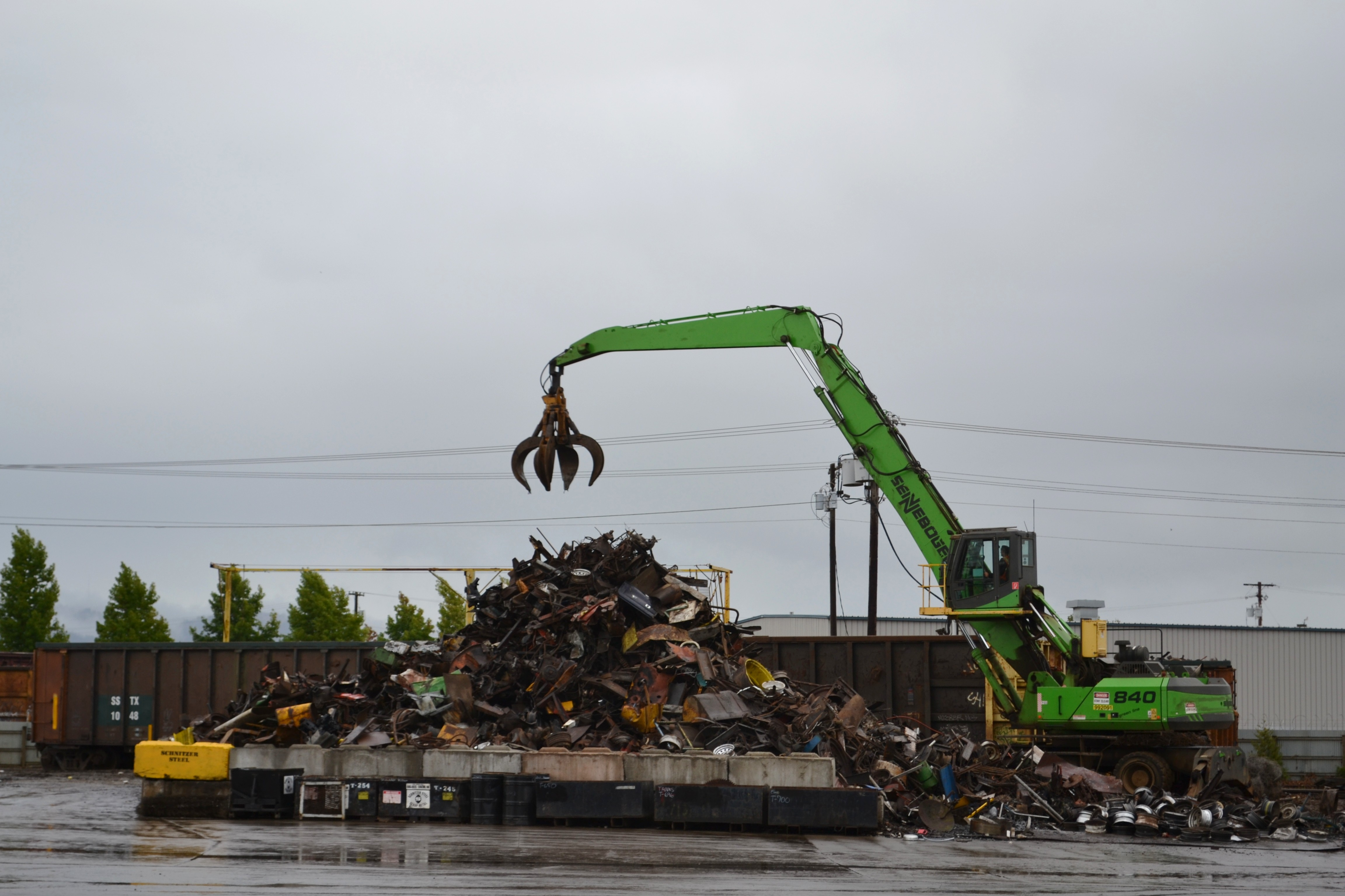 Schnitzer Steel, (Eugene, Oregon)